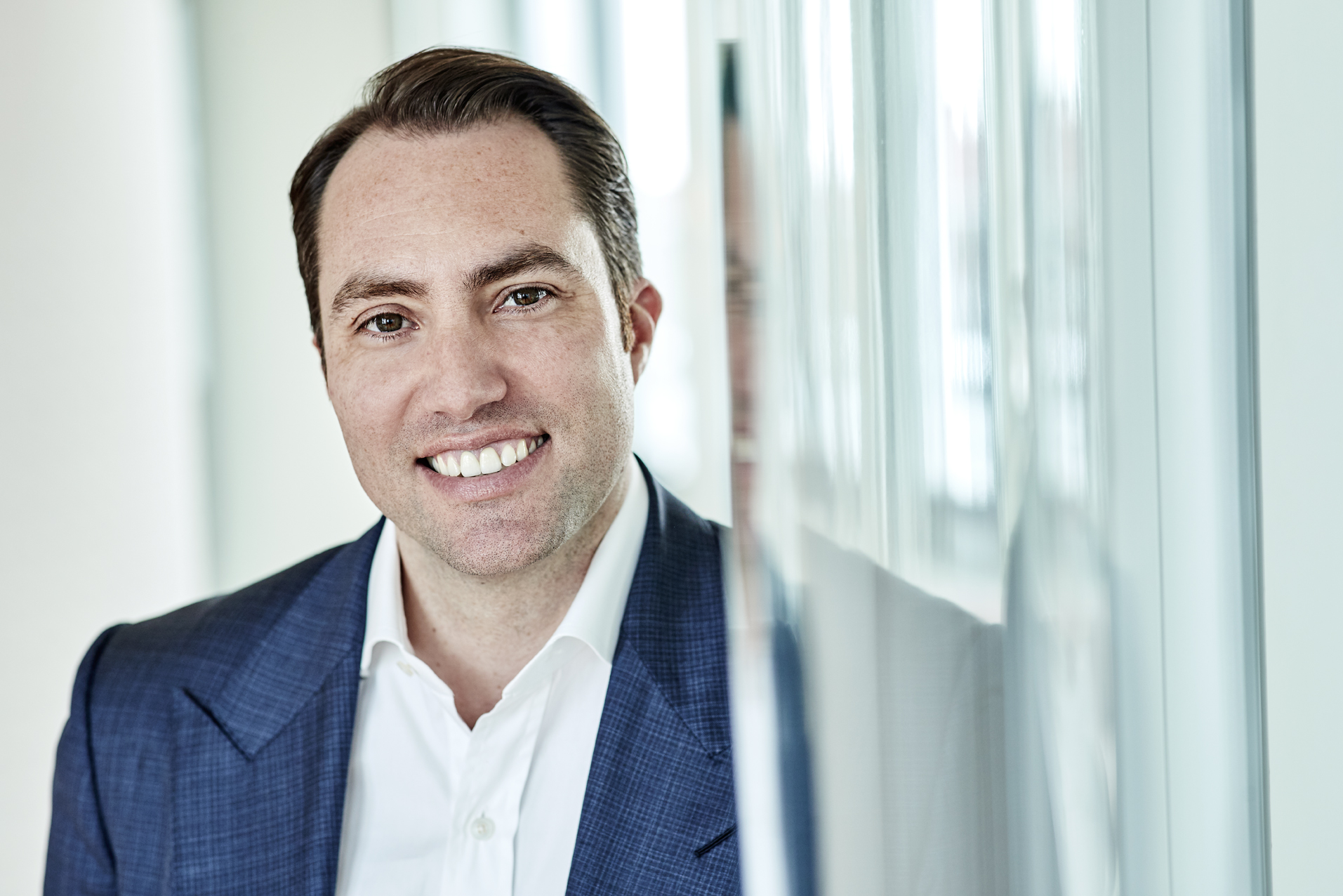 Tobias Ragge, Chief Executive Officer (CEO) of the HRS Group